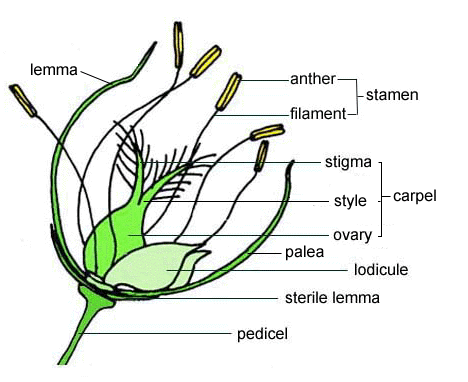 Grass flower with vestigial perianth or lodicules